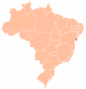 Location of the city of Salvador, in Brazil. Created based in maps developed by User Herr Klugbeisser, for all the Wikipedias under GFDL.